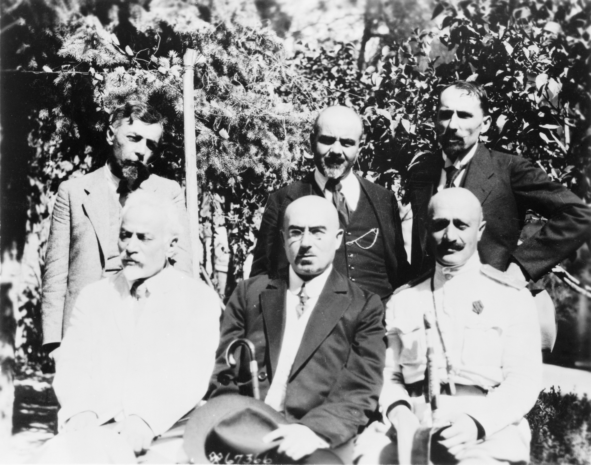 The Cabinet of the Armenian Republic taken at Erivan, Armenia, Oct. 1, 1919. Left to right, sitting: A. Sahakian, Alexander Khatissian, General K. Araradian. Left to right, standing: Nikol Aghbalian, A. Gulkandanian, S. Araradian.